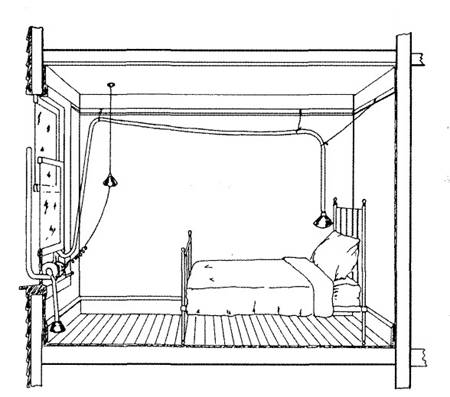 clean room history, part2